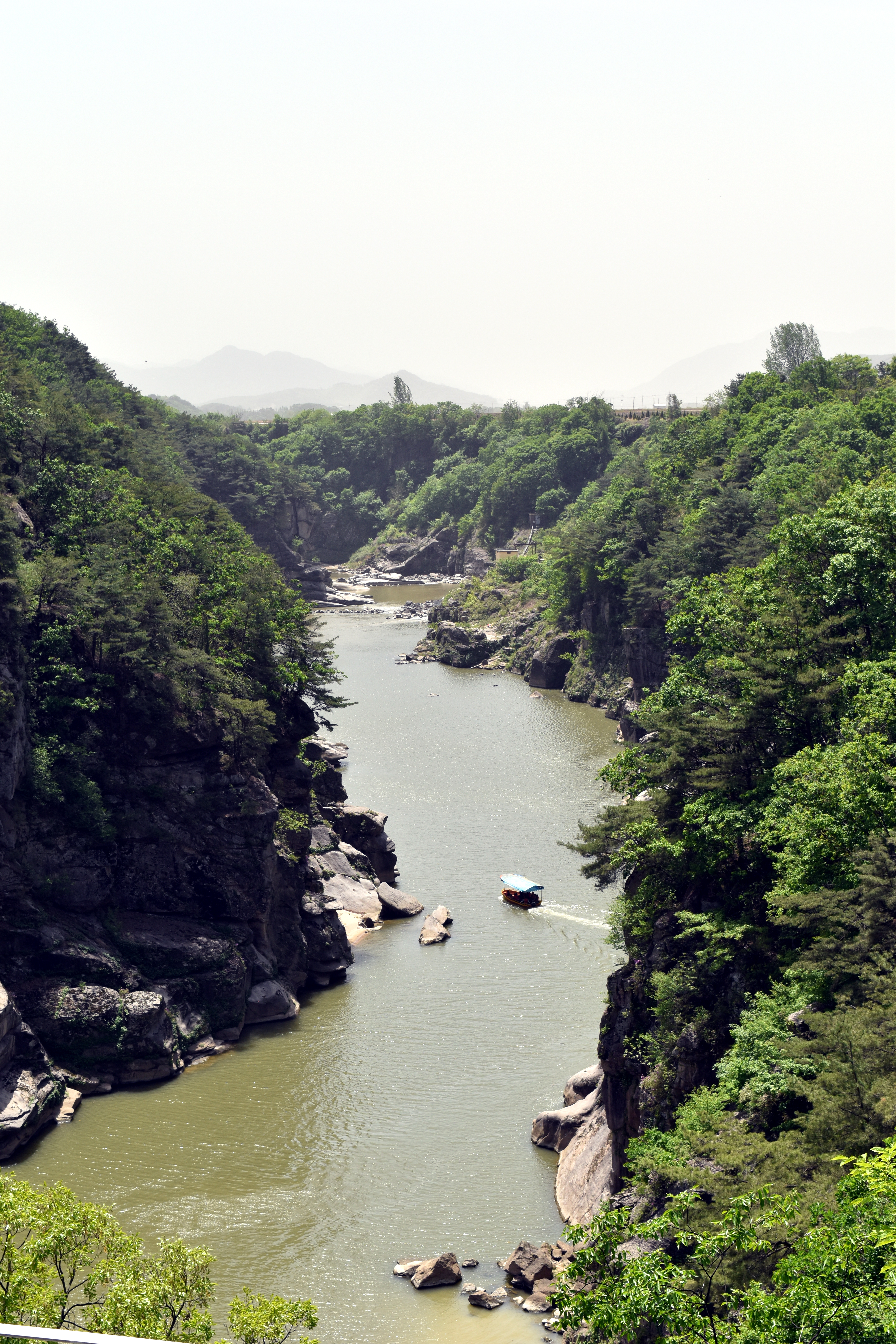 Hantan River nearby Goseokjeong